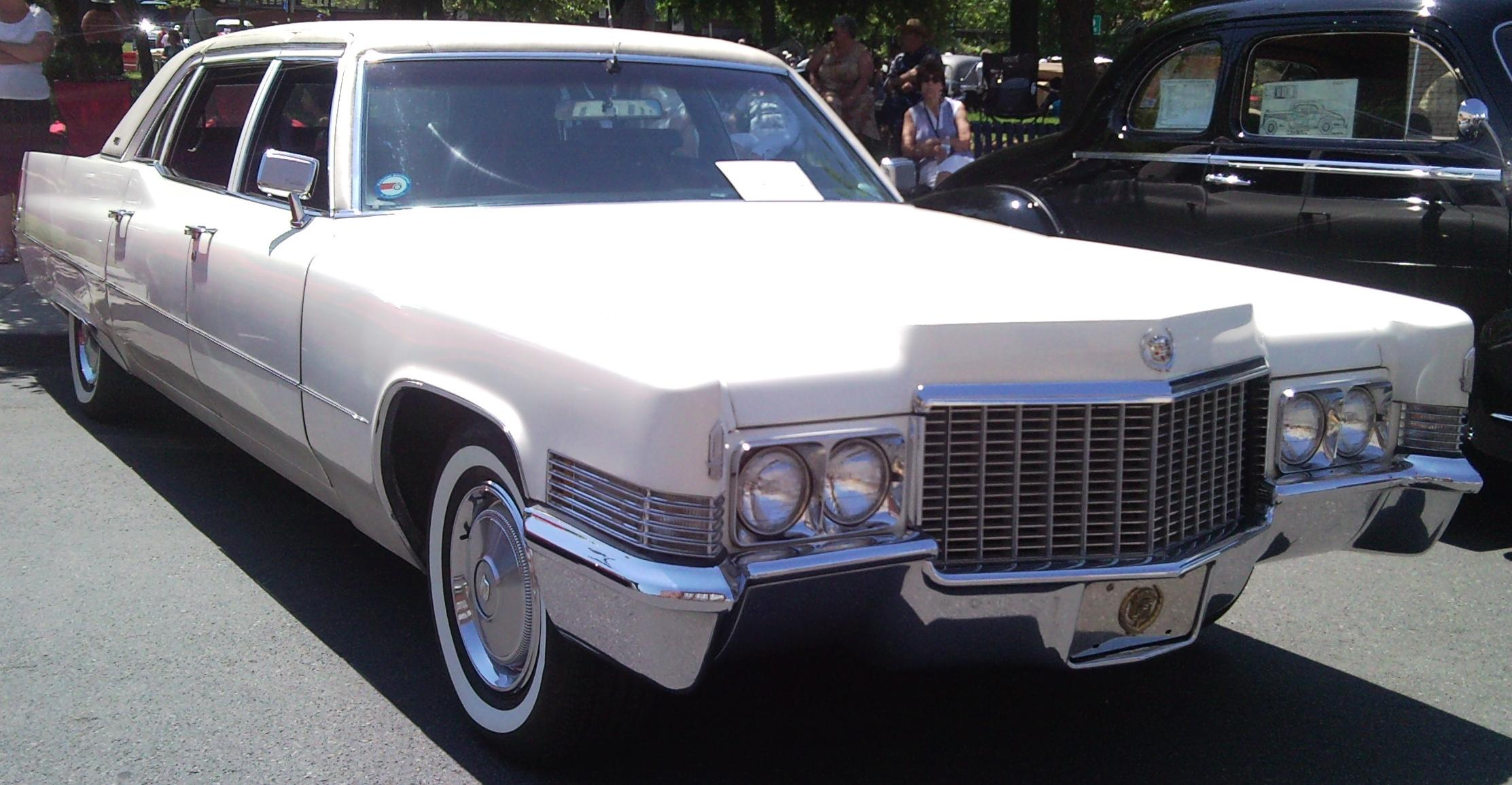 1970 Cadillac Fleetwood photographed in St. Lambert, Quebec, Canada at Auto classique VAQ St-Lambert 2012.